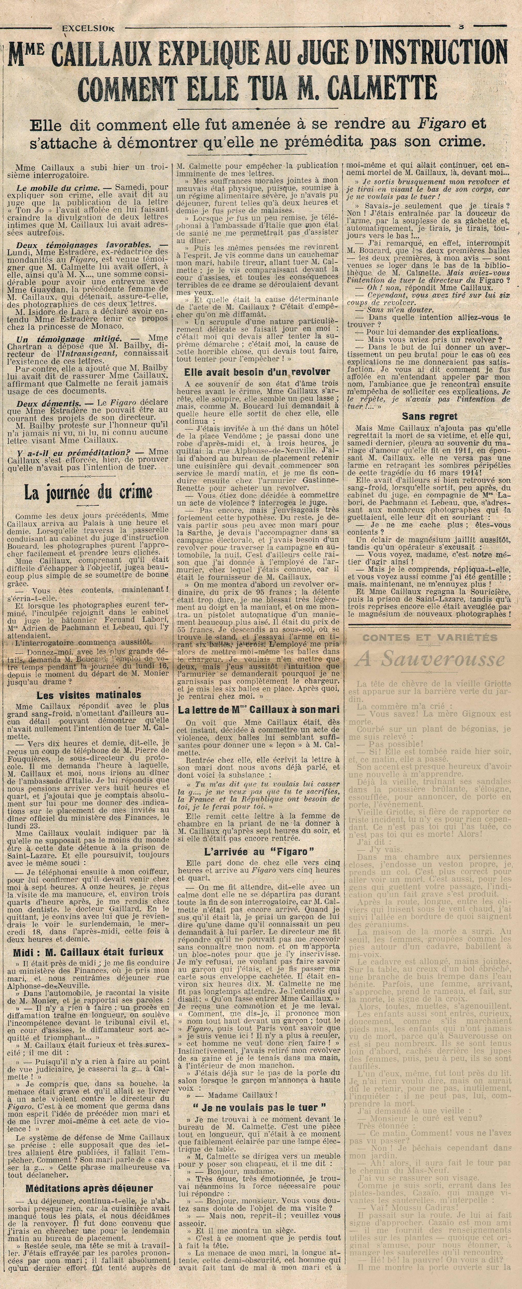 Third page of the newspaper Excelsior, March 25th 1914. Article about Mme Caillaux's interrogation.